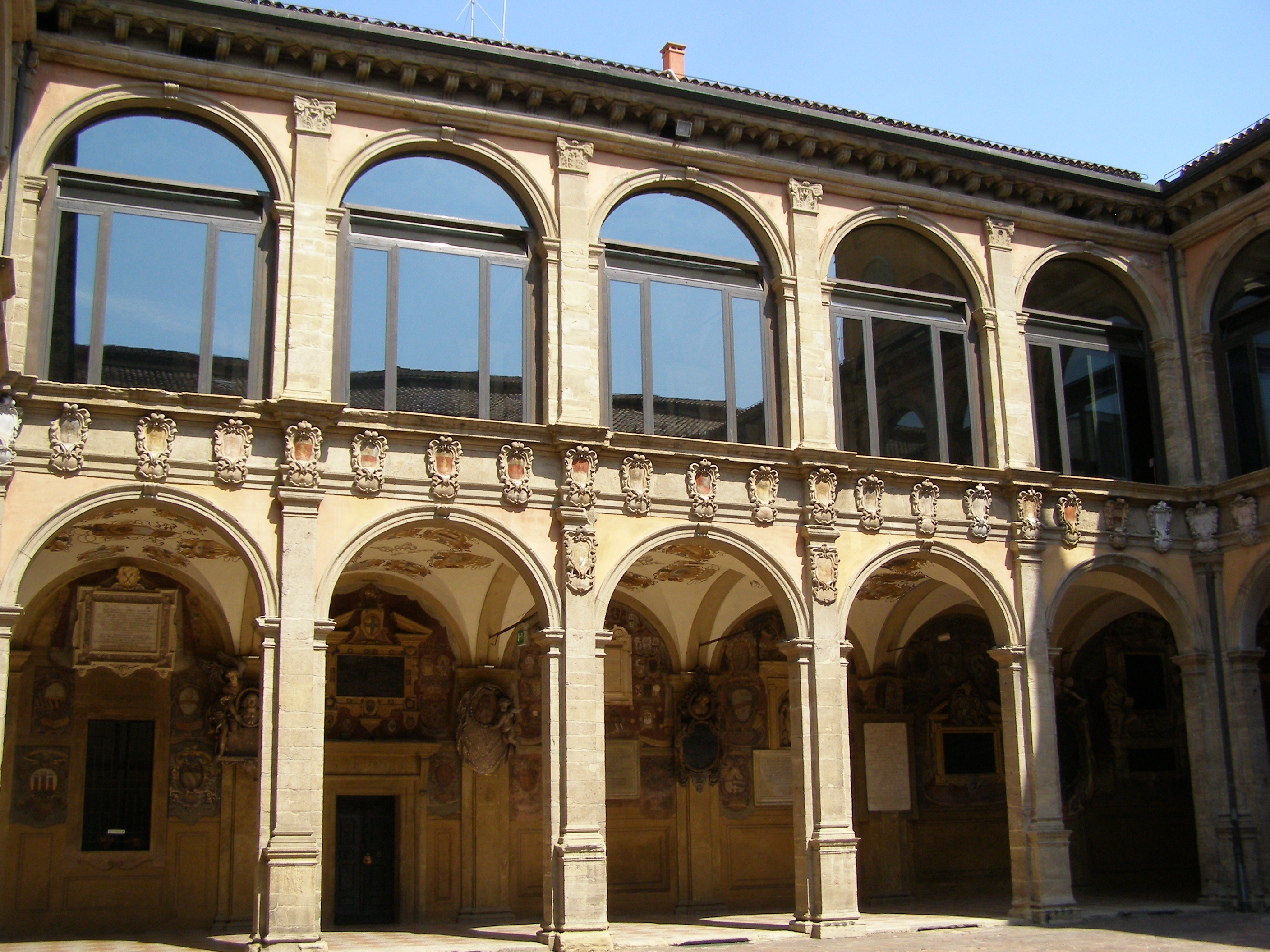 Bologna - Archiginnasio